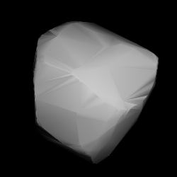 3D convex shape model of 425 Cornelia, computed using light curve inversion techniques. J. Hanuš, J. Ďurech, M. Brož, B. D. Warner (June 2011). "A study of asteroid pole-latitude distribution based on an extended set of shape models derived by the lightcurve inversion method". Astronomy and Astrophysics 530: A134. ISSN 0004-6361. arXiv